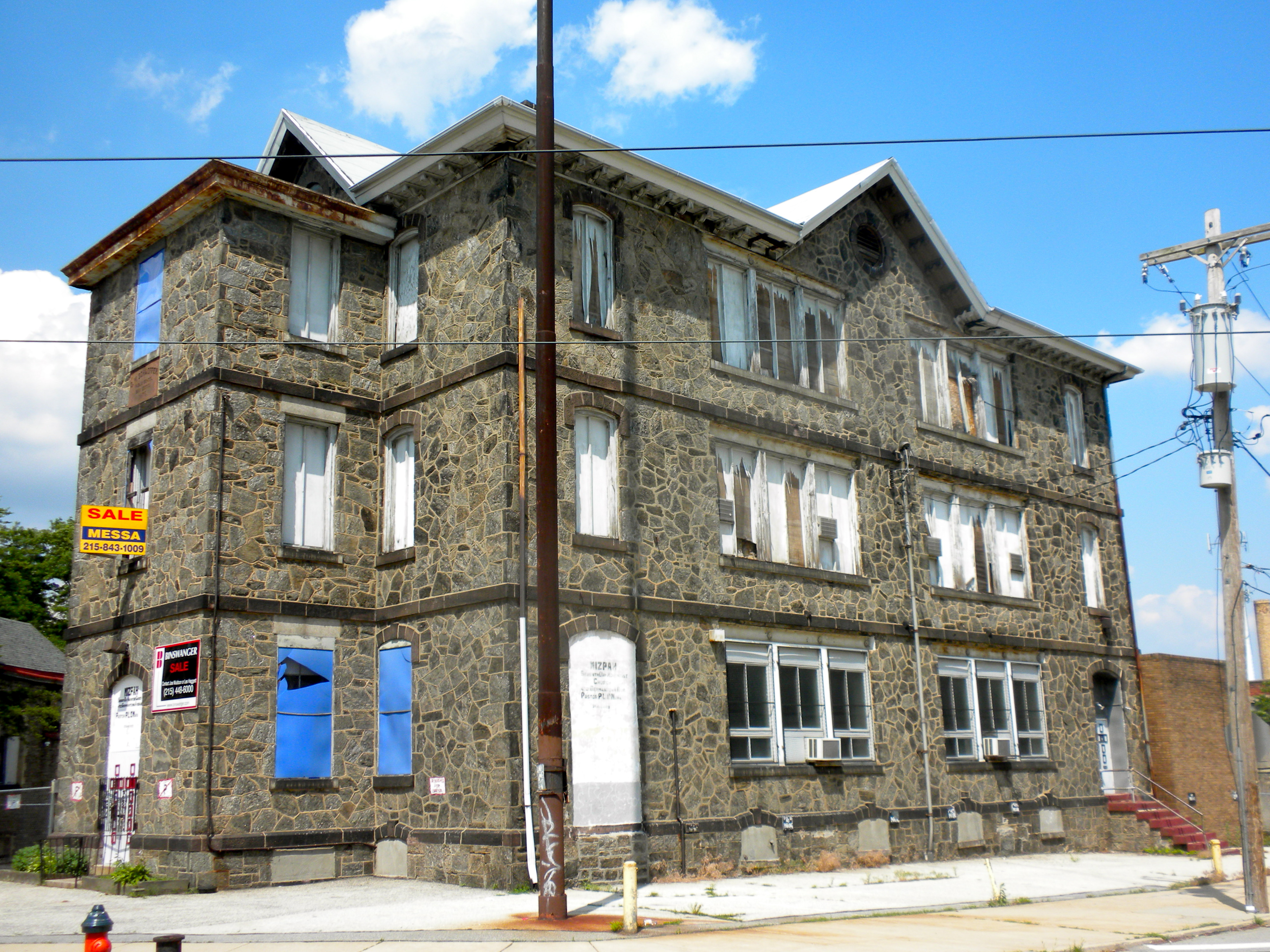 Charles Schaeffer School on NRHP since December 4, 1986. At Germantown Avenue and Abbottsford Road in Germantown neighborhood of Northwest Philadelphia.